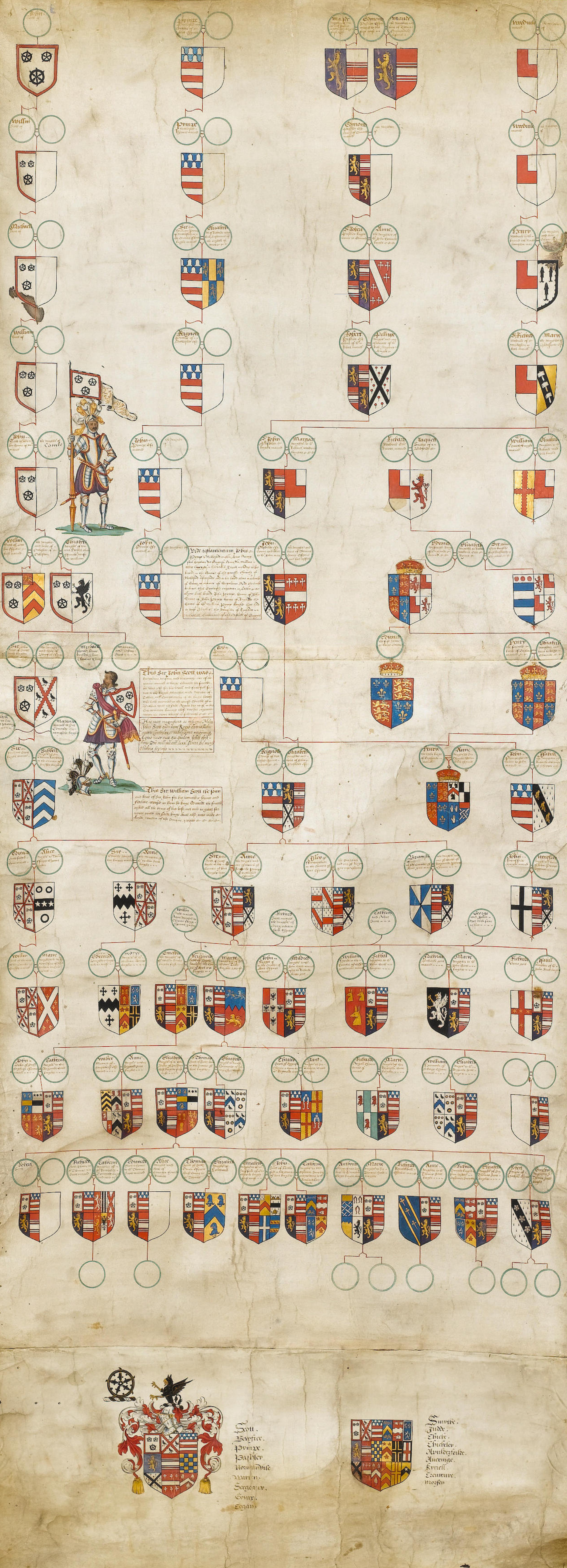 Scott family pedigree with coats of arms illuminated on vellum, nearly 2000 x 750 mm, commissioned probably by Sir John Scott (1570-1616) of Scot's Hall and Nettlestead Place, in Kent, MP, whose arms appear on the bottom row, two shields, each impaling the arms of one of his two wives, whose individual mural monuments with heraldry and kneeling effigies, survive in Nettlestead Church. His arms also appear in the larger two shields below the pedigree: the left-hand one showing his quartered paternal arms, the right-hand one impaling Smythe, with quarterings, for his second wife Katherine Smythe. He was a very wealthy man who spent his money freely, thus likely to have been produced by the leading heraldic artist/genealogist of his time. The pedigree starts at the top with four columns, representing families of (left to right) Scott, Pympe, Pashley and Woodville. It shows his family's connection to Elizabeth Woodville (c.1437-1492), wife of King Edward IV. His great-grand-father married a Pympe, whose mother was a Pashley, whose paternal grandmother was a Woodville, an aunt of Elizabeth Woodville, as the pedigree shows. Sold at Bonhams Auctioneers, London, 26 Jun 2007, Lot 46 "HERALDRY - SCOTT FAMILY OF KENT", for £3,840.